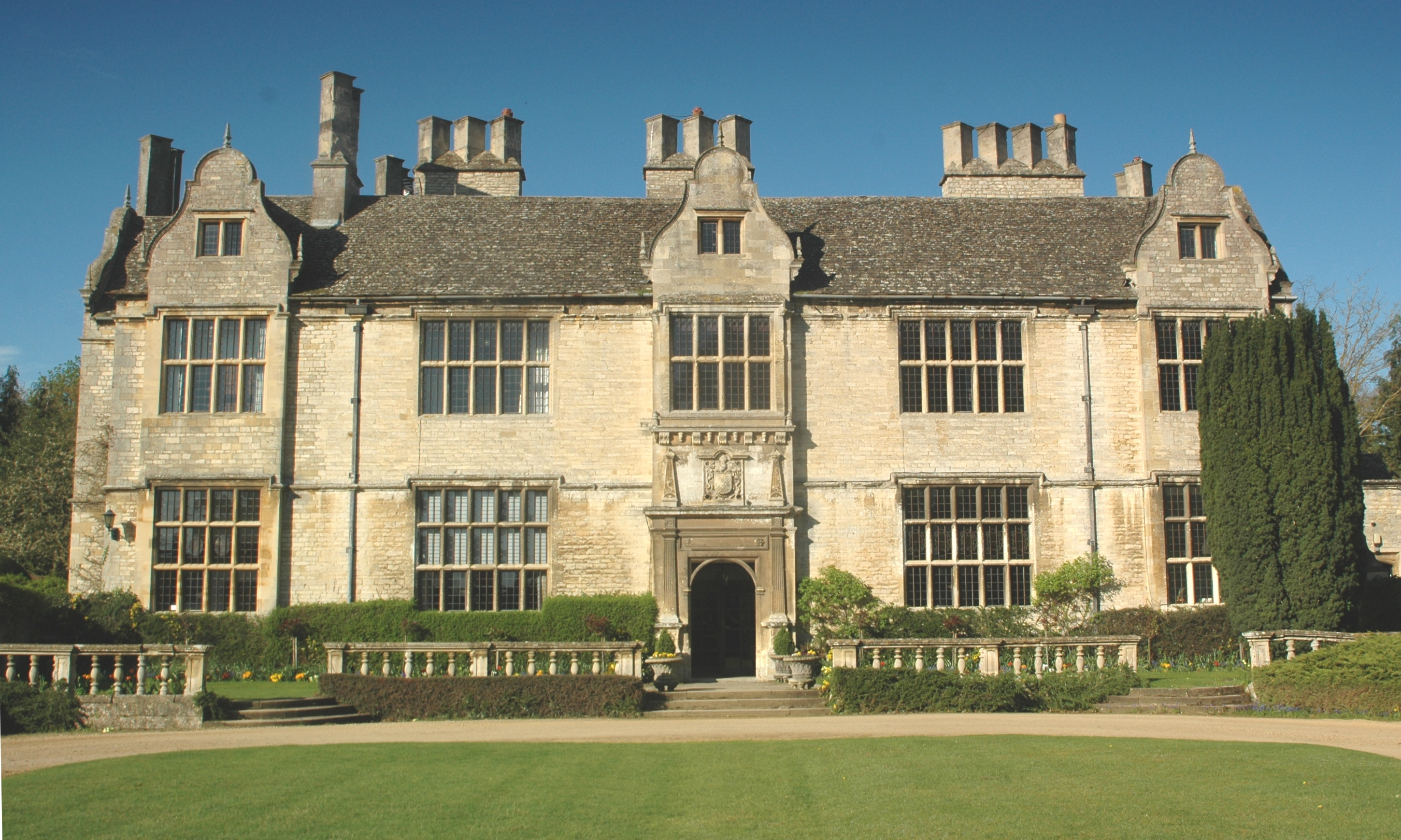 Yarnton Manor house, Oxfordshire, seen from the east